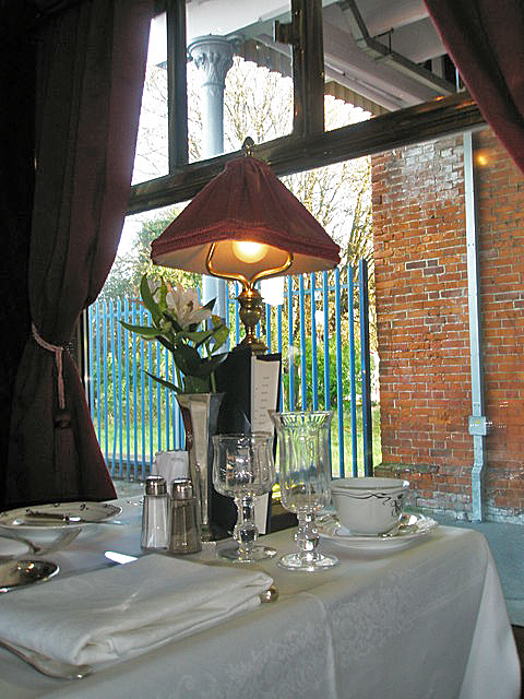 Looking out from "Cygnus" on to the up platform at Folkestone West. Taken within a Pulman dining car aboard the Orient Express just about to depart for London Victoria.